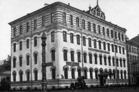 Christ-Christmas Alexander-Iosif Christian brotherhood house, the first christian charity organisation founded by Alexander Gumilevskiy